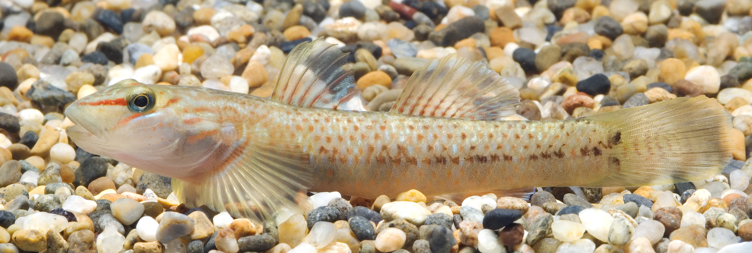 Kuroyoshinobori, (Rhinogobius sp. DA)